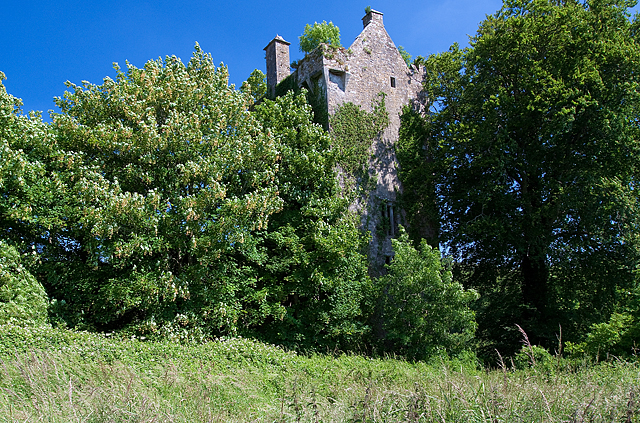 Castles of Munster: Ballyclogh, Cork, near to Baile Cloch, Dromdowney and Holy's Cross Roads, Cork, Ireland. Trees are encroaching on this tower house in the village of Ballyclogh, and its roof has collapsed in recent times. The castle was held by the MacRoberts branch of the Barrys, and was forfeited in 1641 and given to the Purdons. In the early 19c it was altered to provide a residence for the estate steward, and the bawn filled with lean-to buildings, all now derelict.